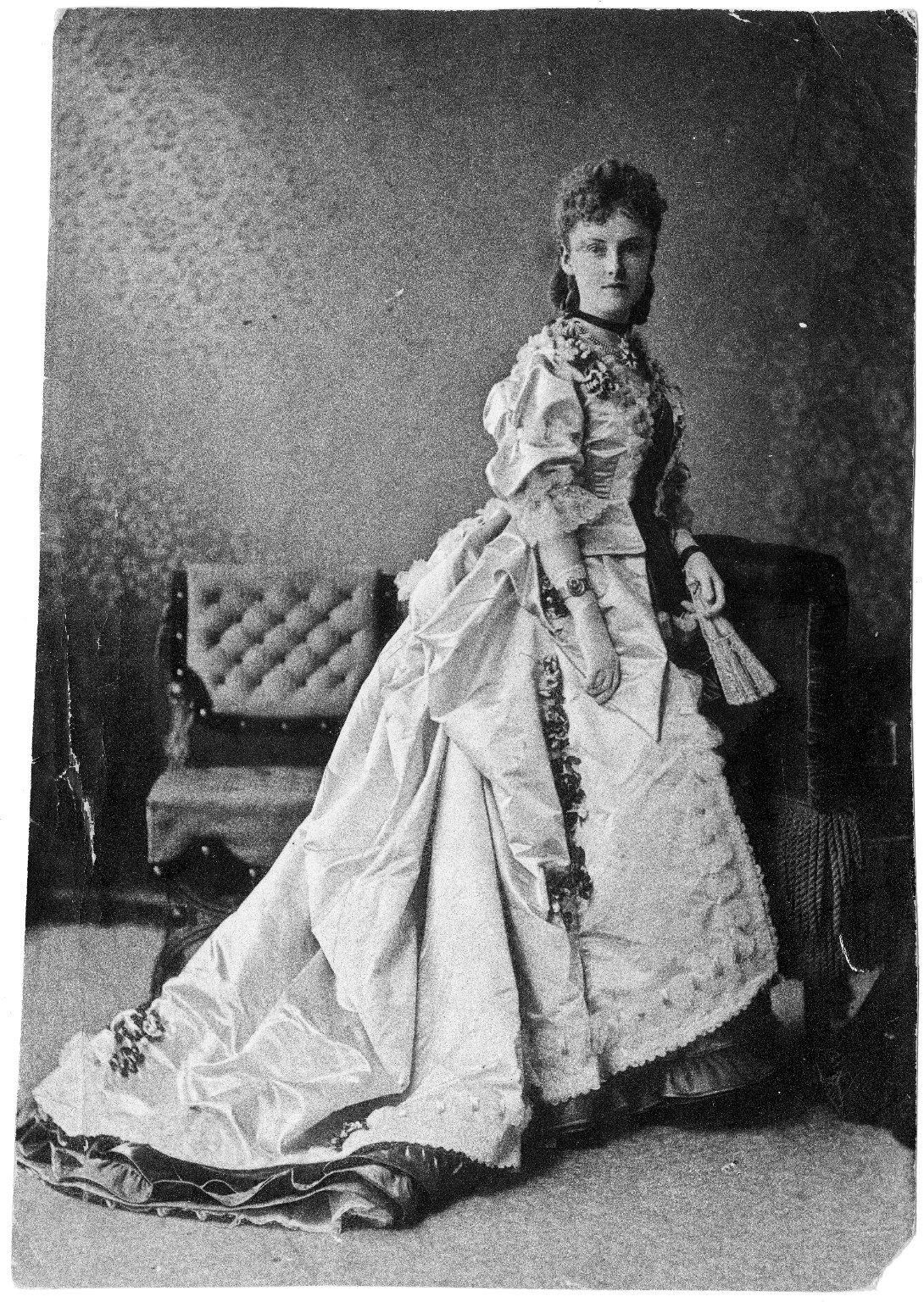 Studio portrait of Rosalie Osborne Bierstadt, standing by a chair. Photograph date unknown. Rosalie was the wife of German-American landscape artist Albert Bierstadt by this time (in accordance with the Brooklyn Museum's title of the photograph). Black and white photograph, 6 × 4 in (15.2 × 10.2 cm) Description: .1 lf Citation: Brooklyn Museum Libraries. Special Collections Call Number: N200 B473 A1